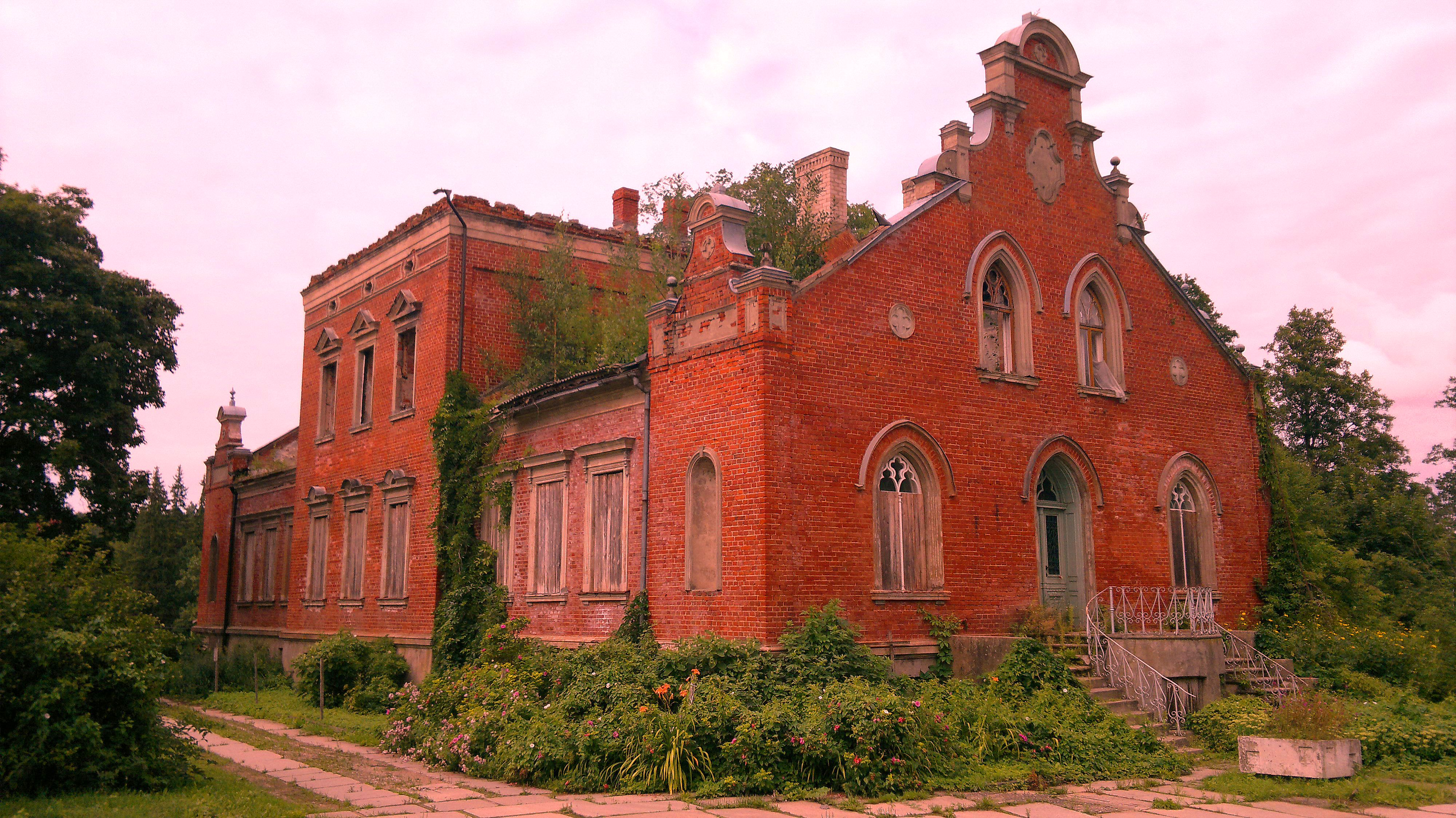 Reģi ManorLatviešu: Reģu muižas pils